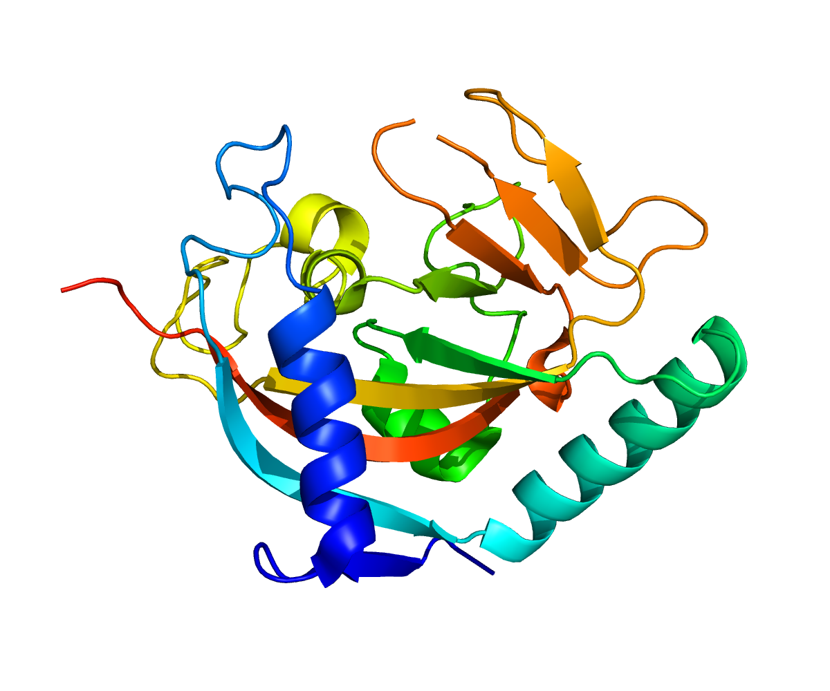 Structure of protein TNKS.Based on PyMOL rendering of PDB 2rf5.